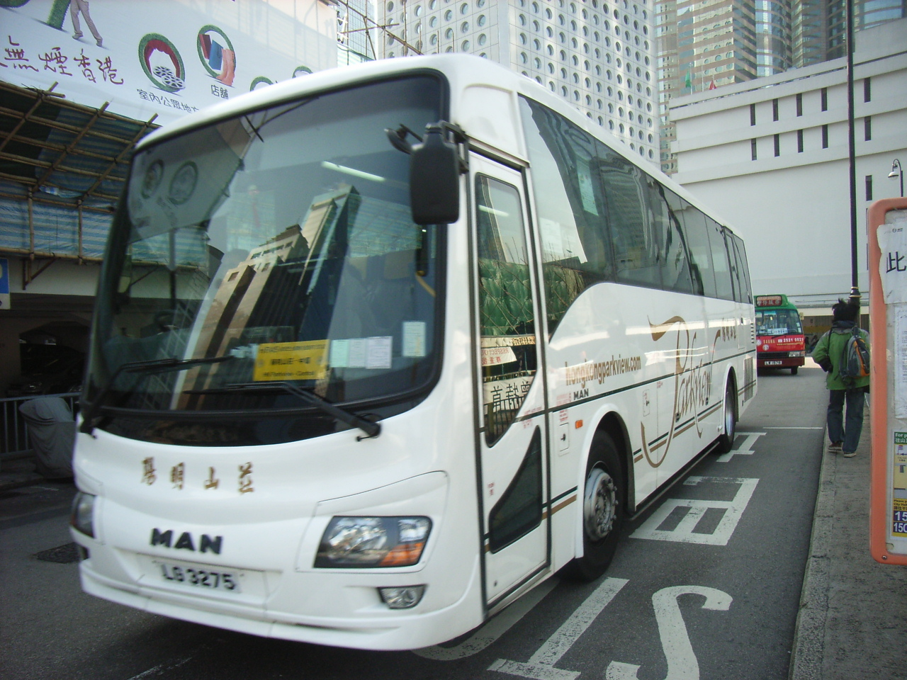 A Youngman-MAN bus in Hong Kong, China manufactured by the Jinhua Youngman Vehicle Co. Ltd.